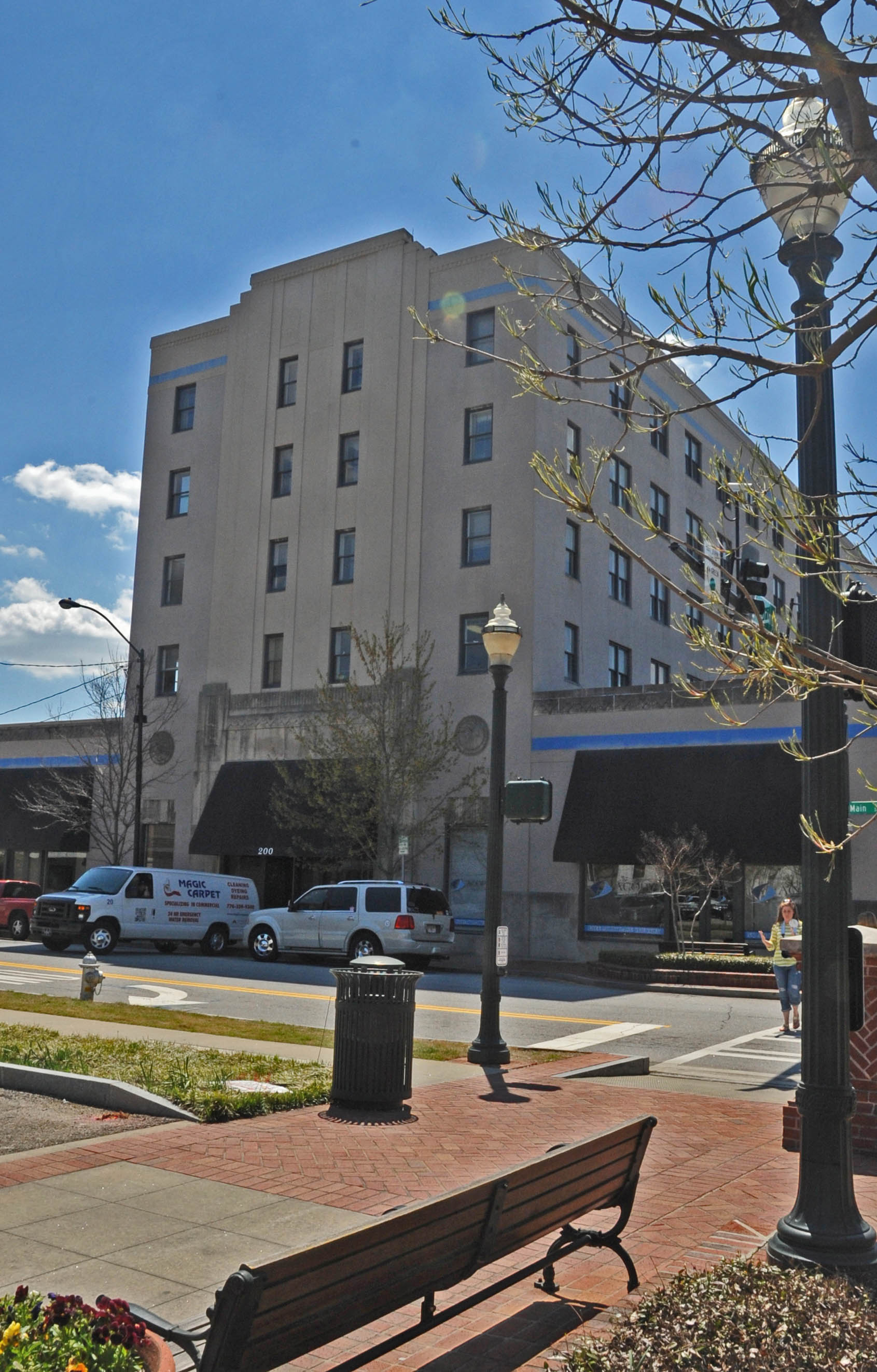 BUILT 1937 AND NOW KNOWN AS THE HUNT TOWER. IT IS NOW AN OFFICE BUILDING